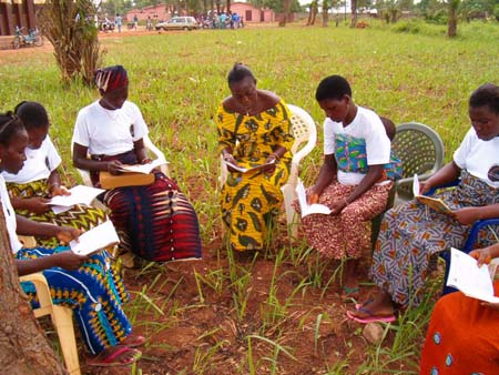 Credit: E. C. Ahoundou/USAID.